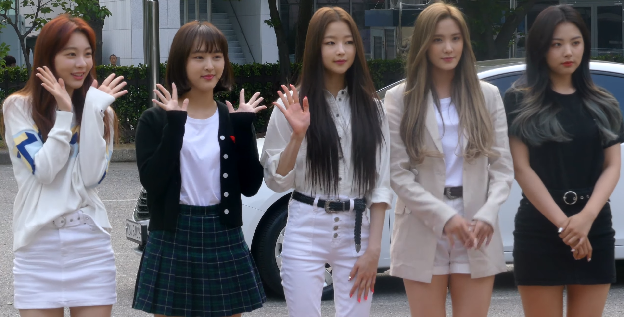 BVNDIT going to a Music Bank recording on May 31, 2019.